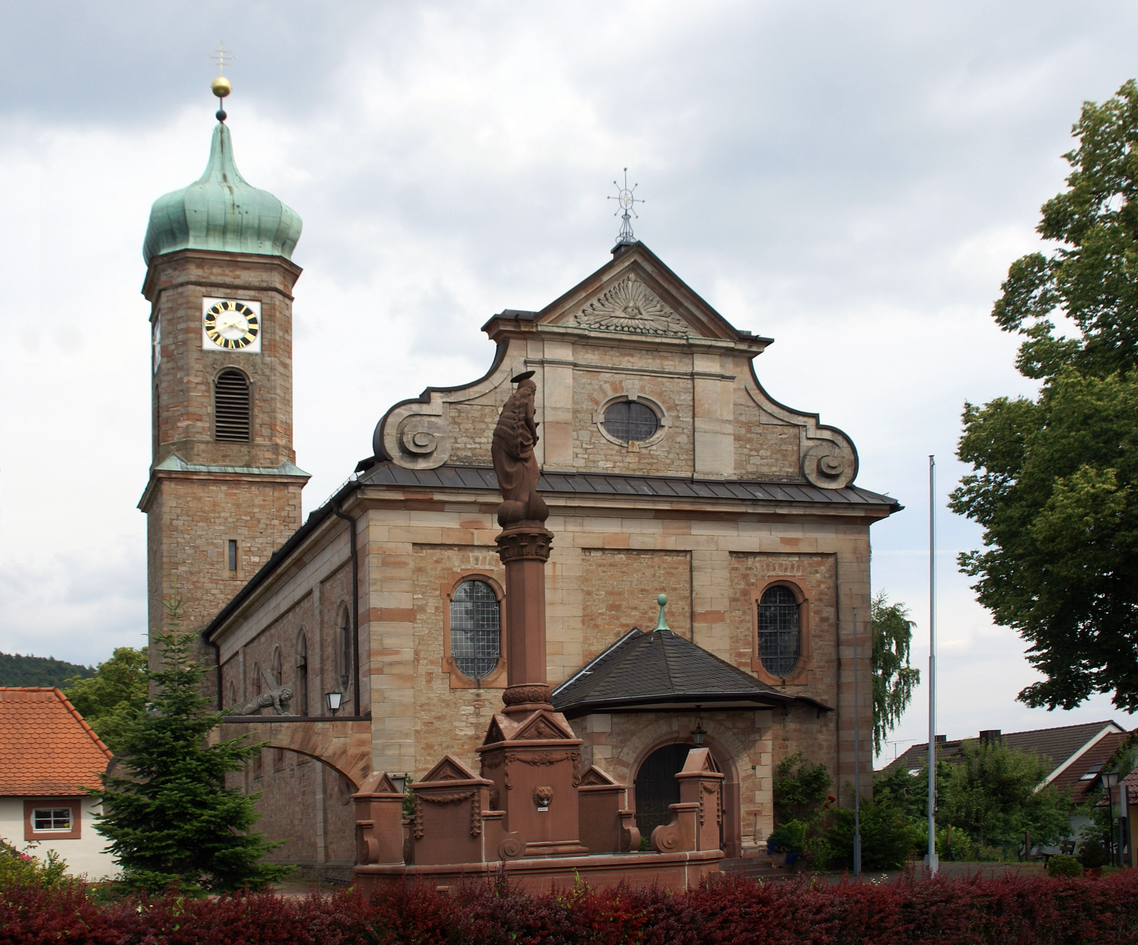 The catholic parish church of St. Antonius in Rottenberg